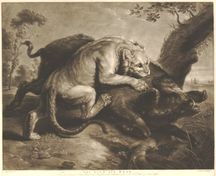 A mezzo-tint engraving by Robert Earlom of Frans Snyder's 17th century painting of "The Lion and the Boar"